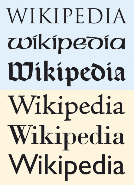 Graphic about history of typography